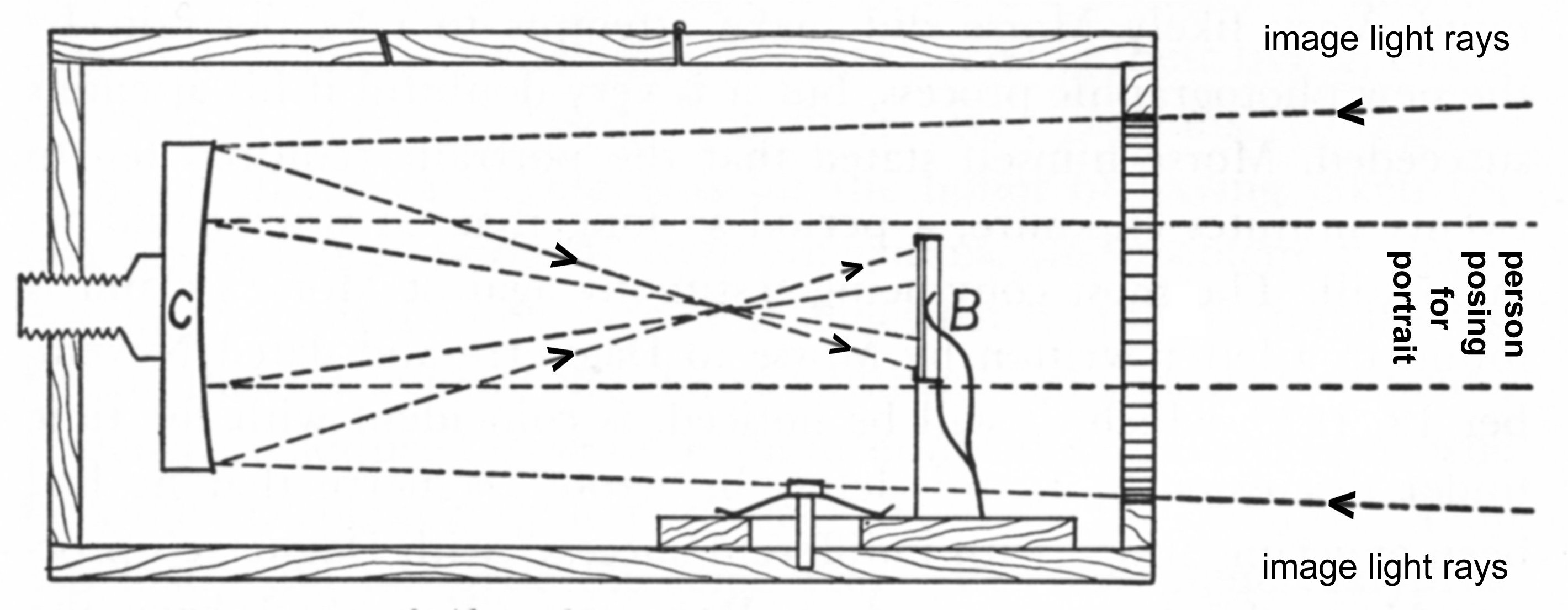 Wolcott camera light path